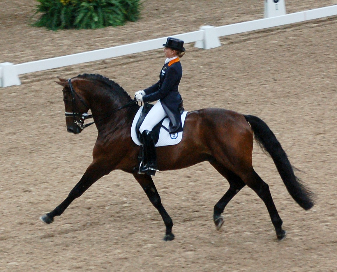 The dutch dressage rider Marlies van Baalen with Kigali